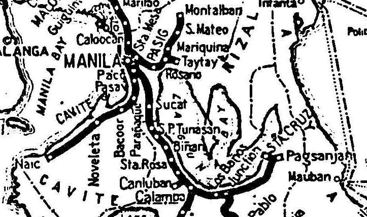 A map of the Manila-Dagupan Railway and Manila Railroad Company local train routes in Manila and its surrounding provinces. It is derived from File:Philippine railways during its peak.jpg. Tagalog: Isang mapa ng mga ruta ng mga lokal na tren ng Manila-Dagupan Railway at Manila Railroad Company sa Maynila at mga nakalibot na probinsya.